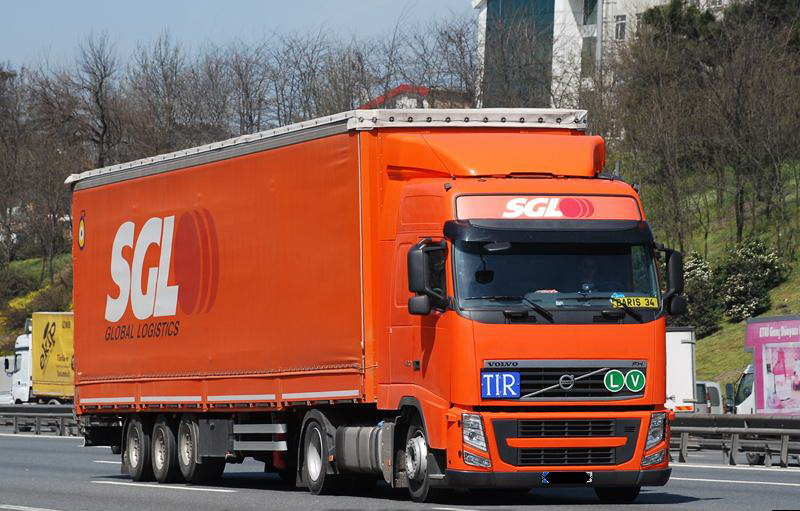 milad volvo